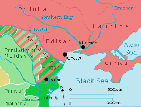 Territ.changes at Treaty of Bucharest 1812, since H.E.Stier (dir.) Grosser Atlas zur Weltgeschichte, Westermann 1984, p.119, ISBN 3141009198